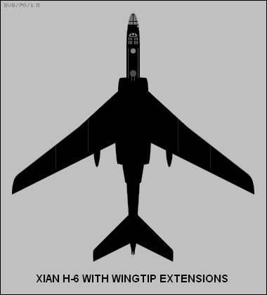 Public domain image by Greg Goebel from Vectorsite ( .